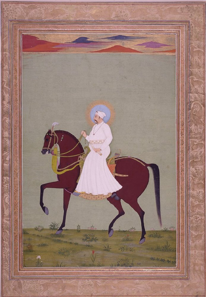 Muhammad Shah was the Mughal emperor between 1719 and 1748.